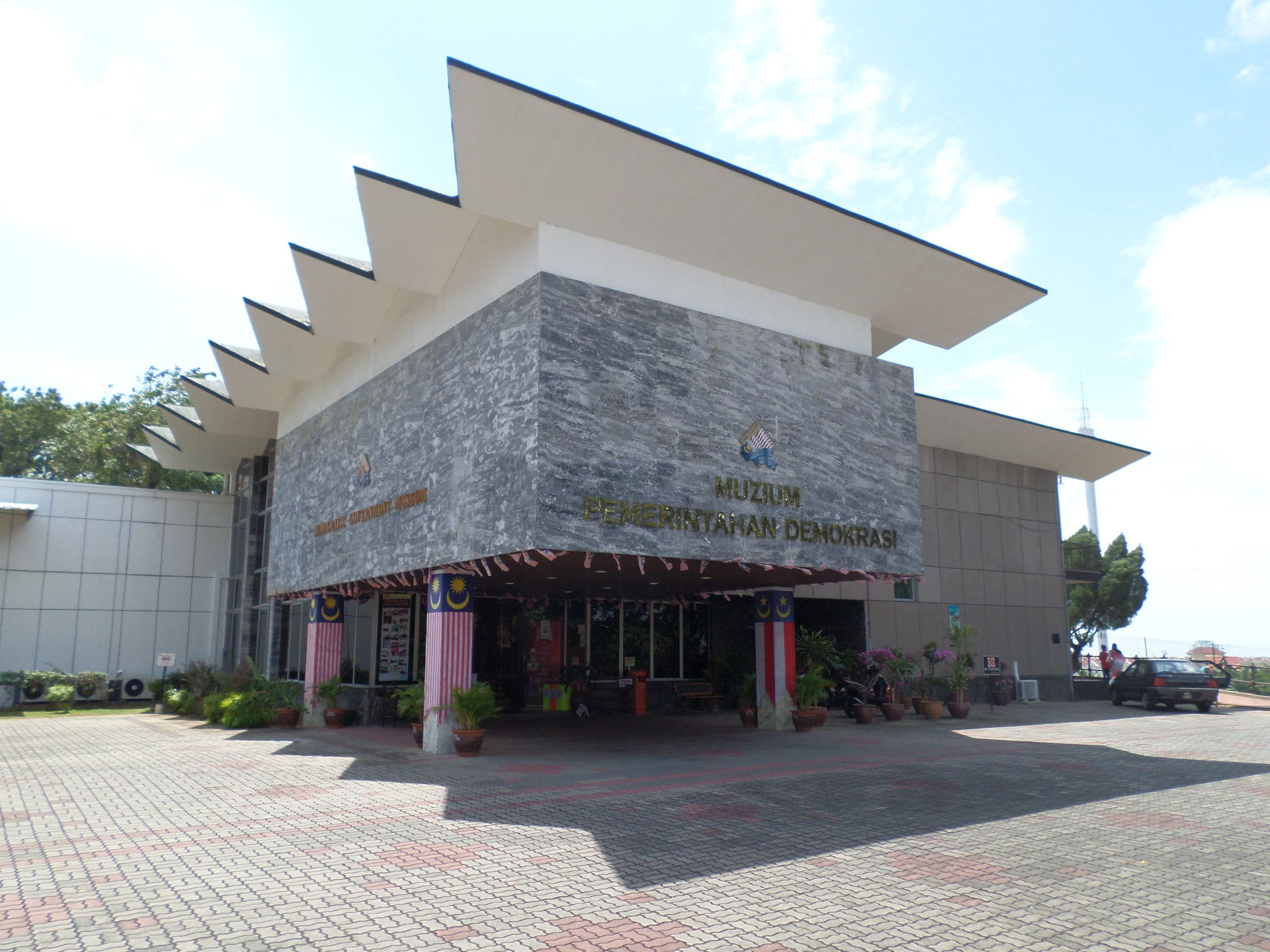 Democratic Government Museum, Malacca, MalaysiaBahasa Melayu: Muzium Pemerintahan Demokrasi, Melaka, Malaysia